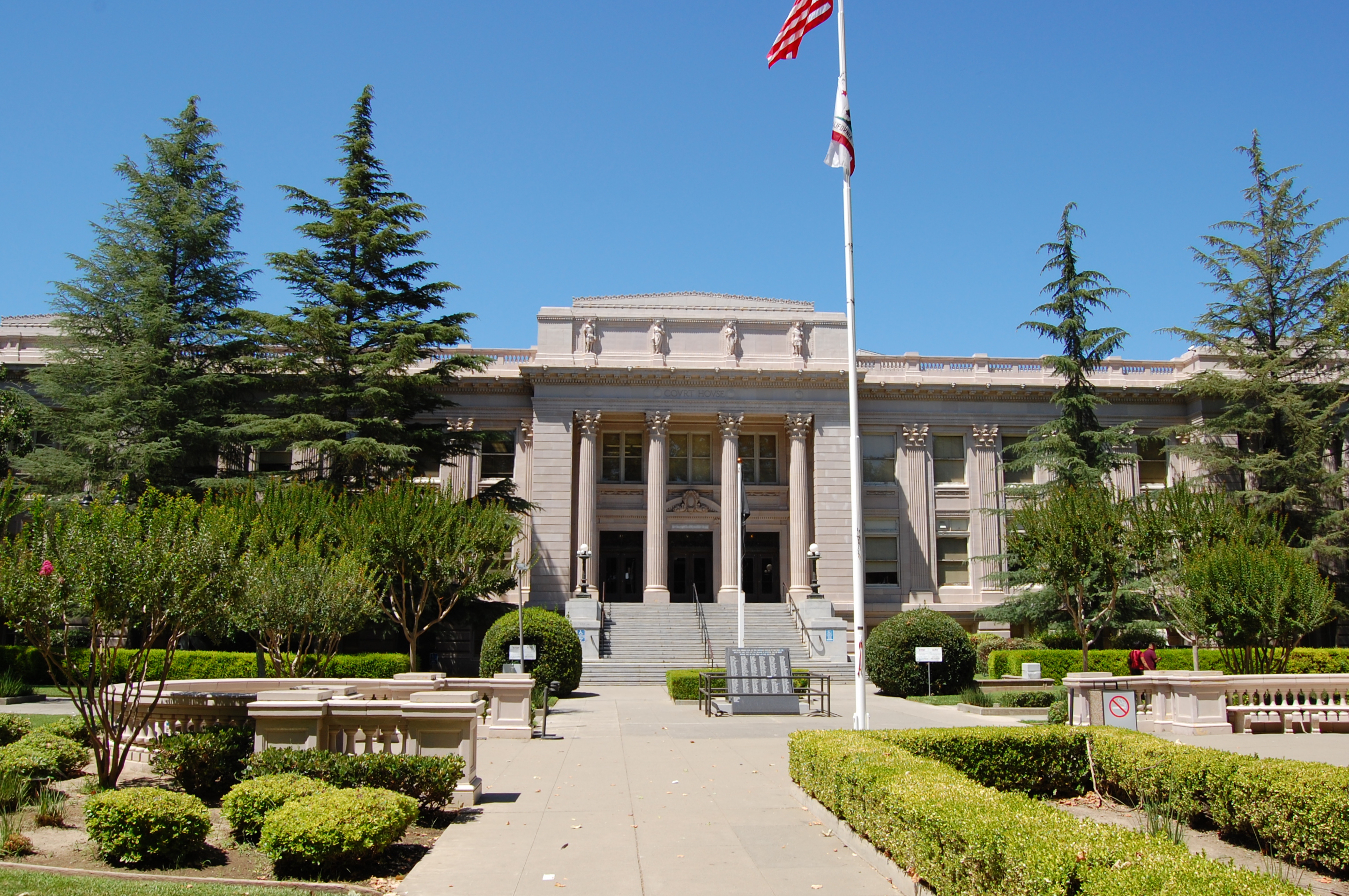 The Yolo County Courthouse in Woodland, California. This building is on the National Register of Historic Places.